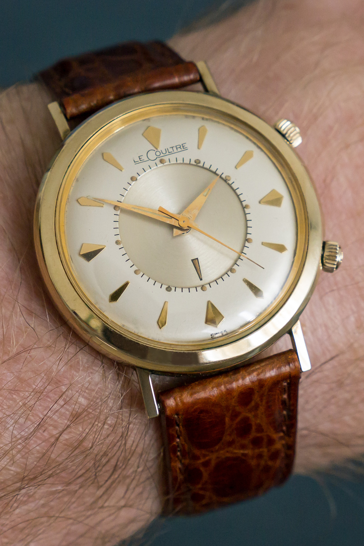 Le Coultre wristwatch alarm clock, 1954